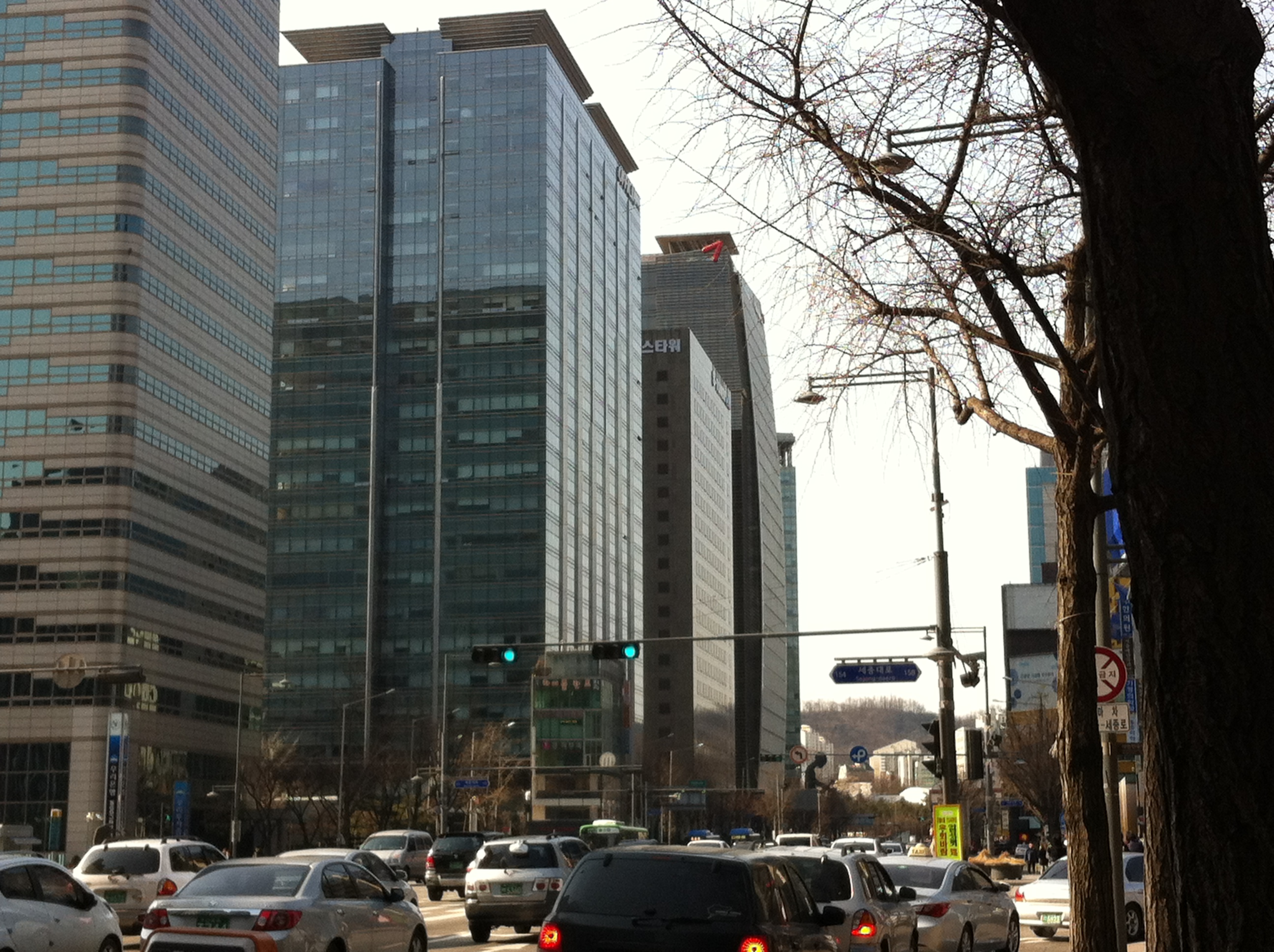 View of Saemunanno from Sejondaero Intersection (intersection of Sejongdaero, Jongno and Saemunanno). Saemunanno, a 1.1km stretch between Sejongdaero Intersection in Jongnogu and Seodaemun Station Intersection in Seodaemungu, is designated to function as a part of National Route No.6. The buildings shown in the photo, from left to right, are Gwanghwamun Building, Gwanghwamun Officia Building, S Tower, Kumho Asiana Group Headquarters (main building) and Heungkuk Life Insurance Headquarters.